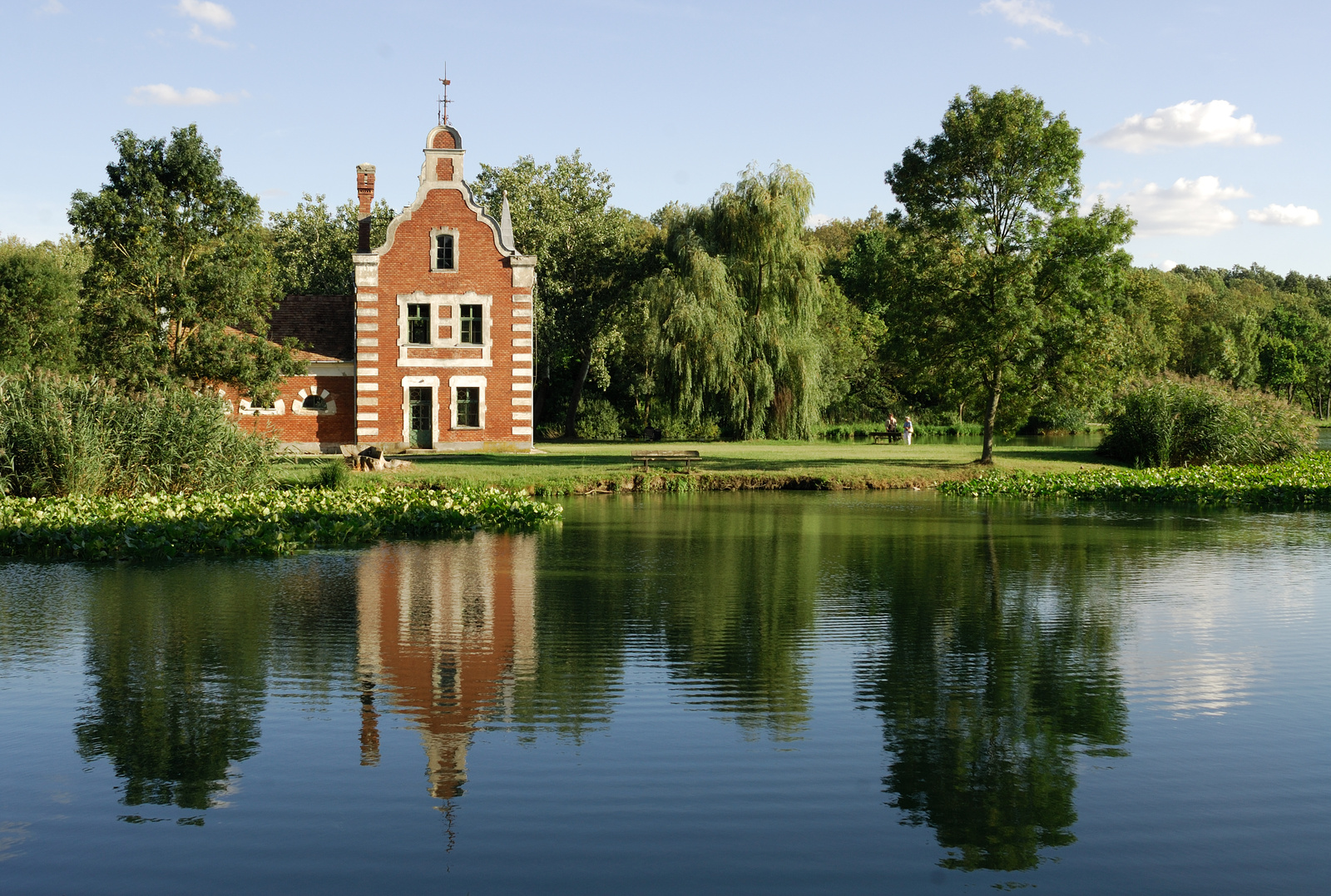 Dutch House ("Hollandi ház") in the park of the Festetich Palace, in Dég, Fejér county, Hungary. Built in 1891.